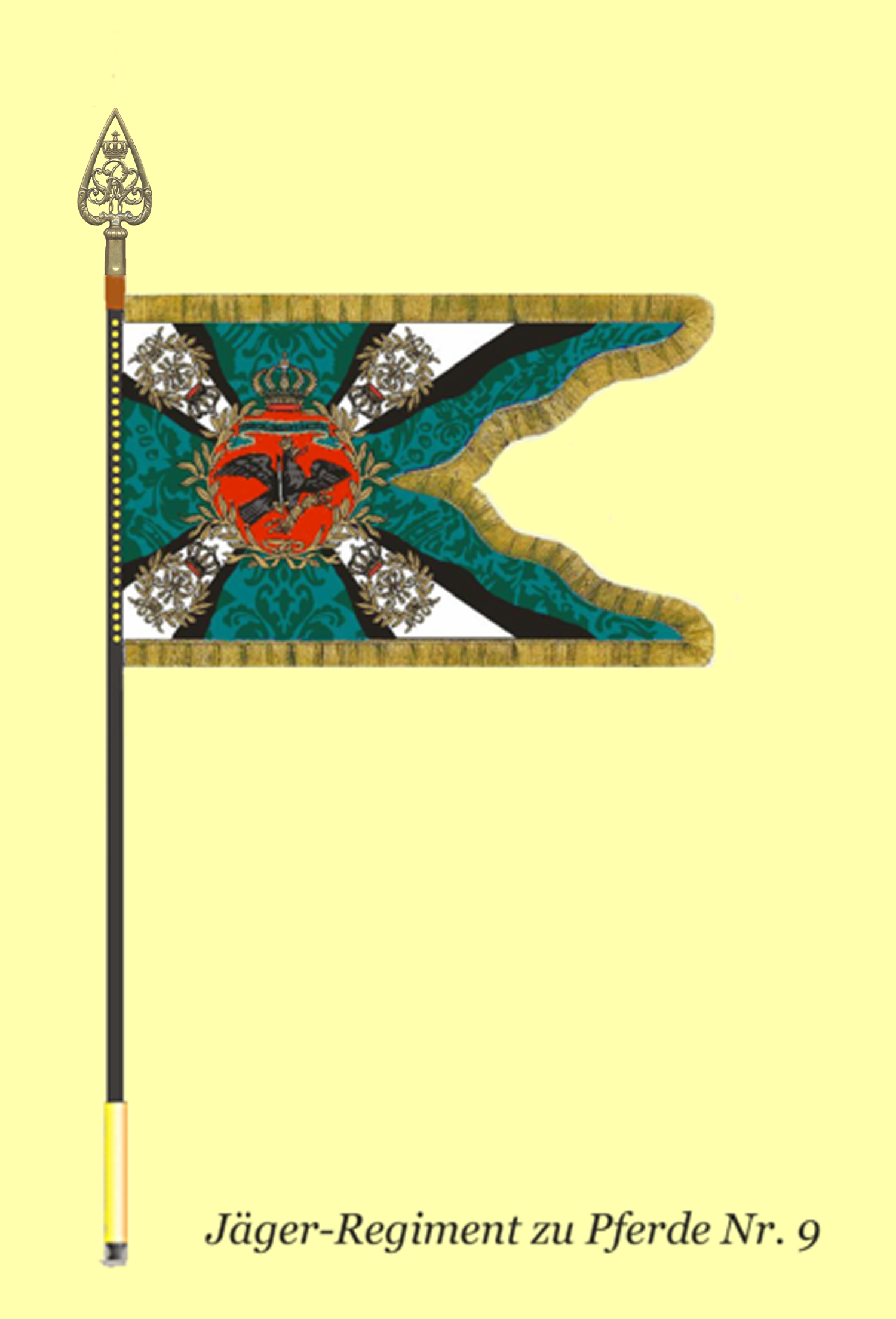 Colors of the royal prussian 9th Regiment of Mounted Rifles